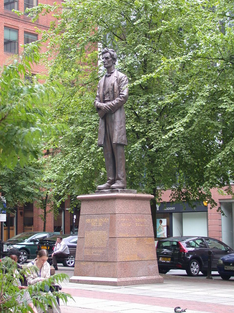 Lincoln Square On December 31, 1862, a meeting of cotton workers at the Free Trade Hall in Manchester resolved to support the Union in their fight against slavery. This was despite the increasing hardship caused by the Union blocade preventing shipments of cotton to the Lancashire mills. On January 19, 1863, Abraham Lincoln sent an address thanking the cotton workers of Lancashire for their support. This monument commemorates the events and reproduces portions of both documents.